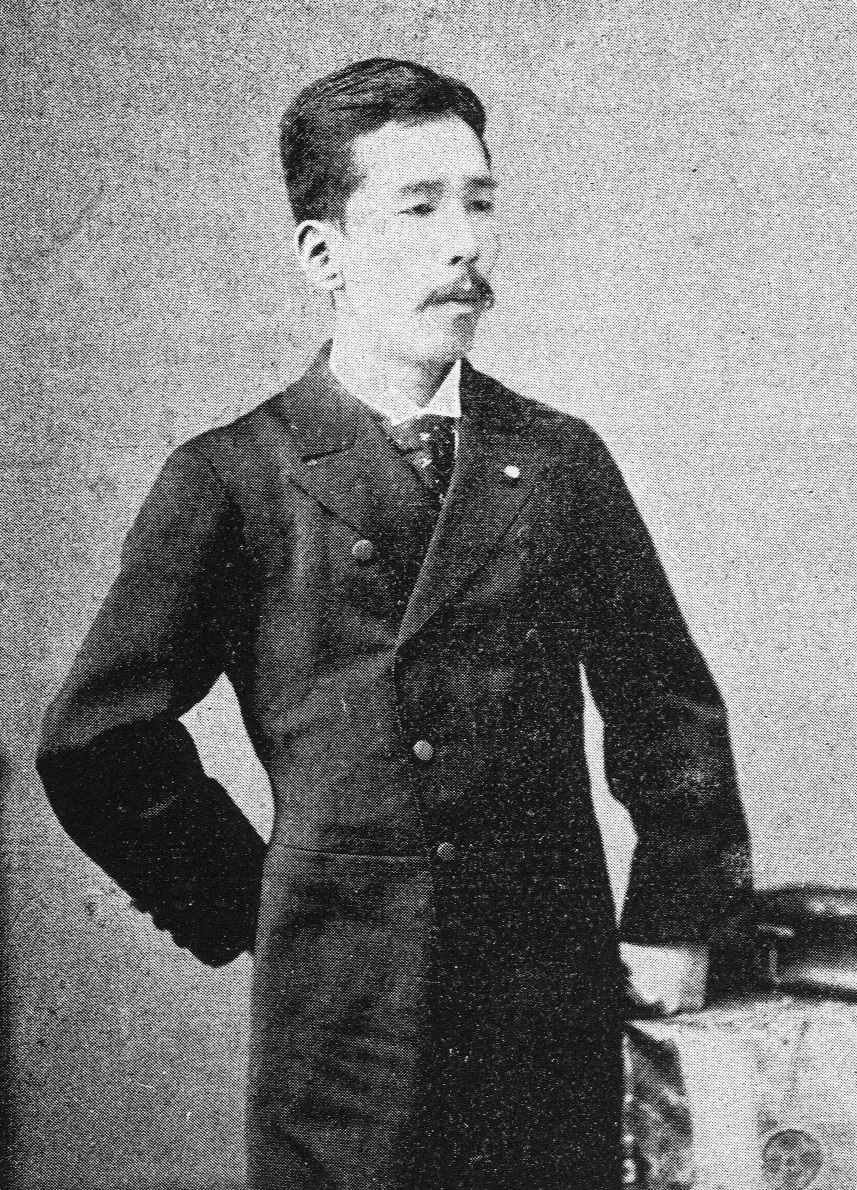 Shibata Kamon